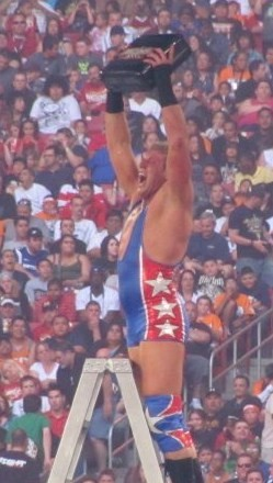 Jack Swagger outlasts 9 other superstars and climbs the ladder to grab the breifcase to become Mr. Money in the Bank